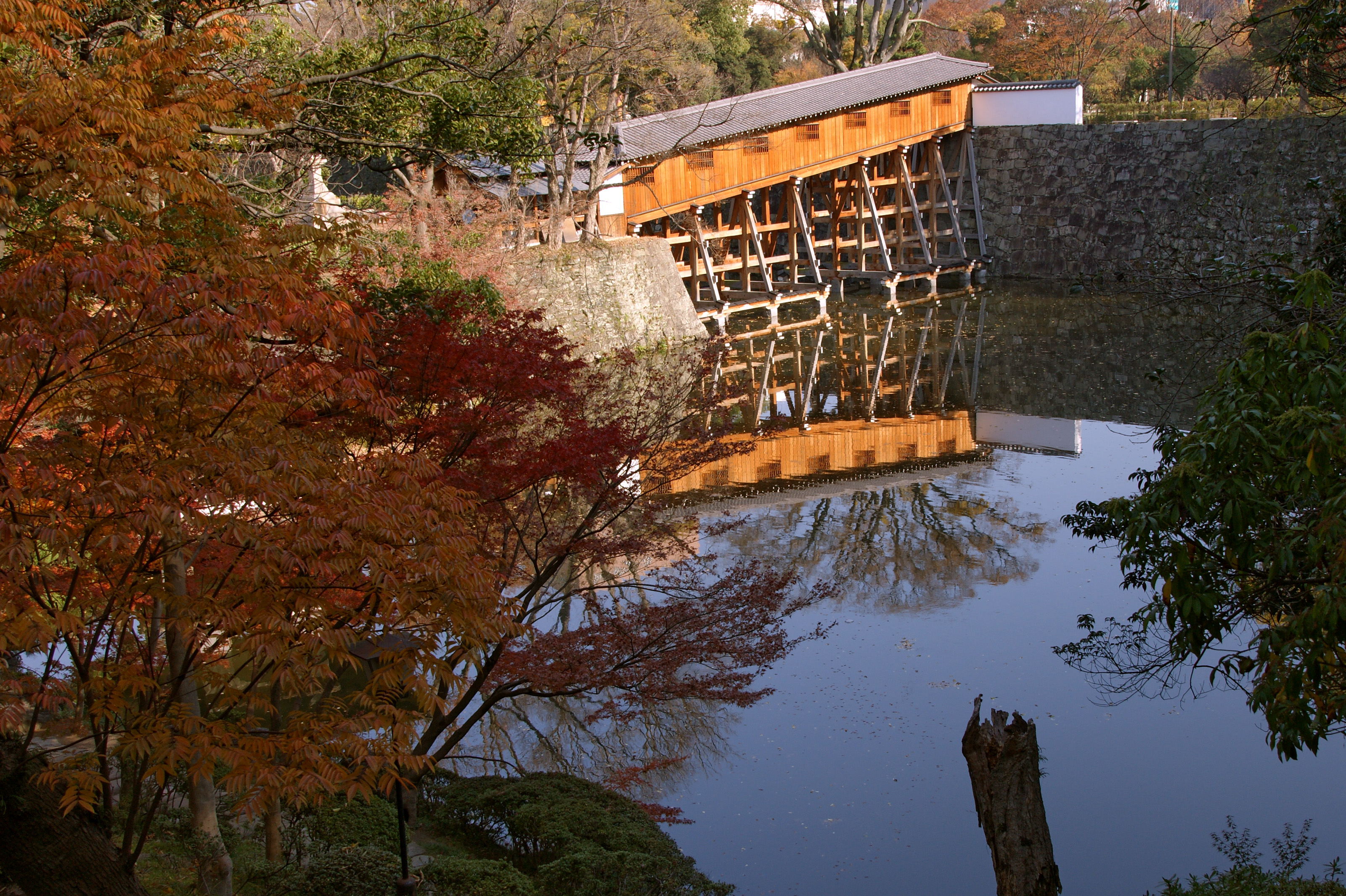 Wakayama Castle Nishinomaru Garden, Wakayama, Wakayama prefecture, Japan